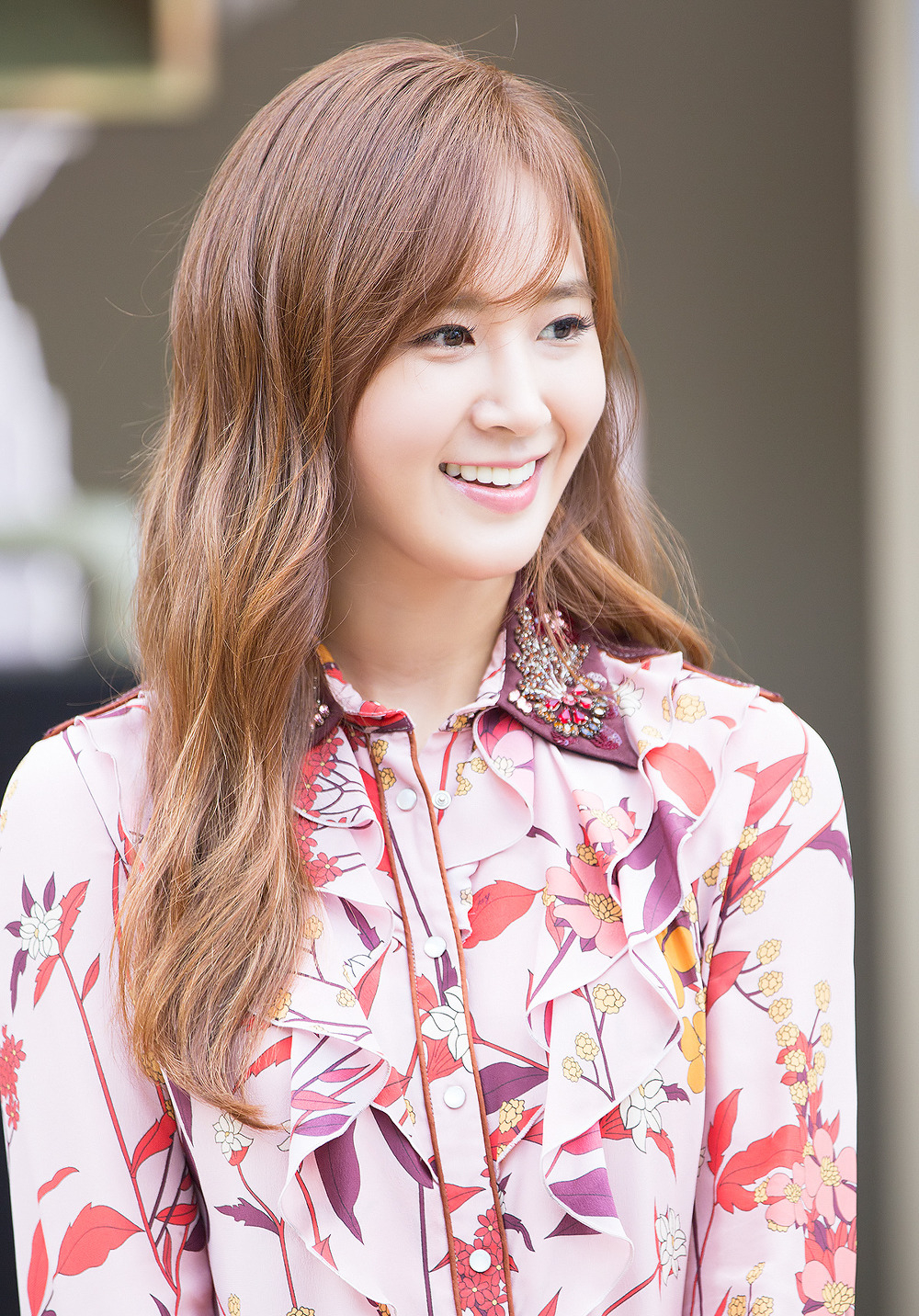 Kwon Yu-ri at Lotte Department Store Fan Signing Event on September 3, 2016